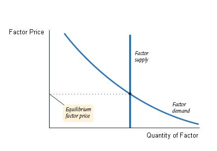 factor prices are denoted on y axis quantity of factor on x axis